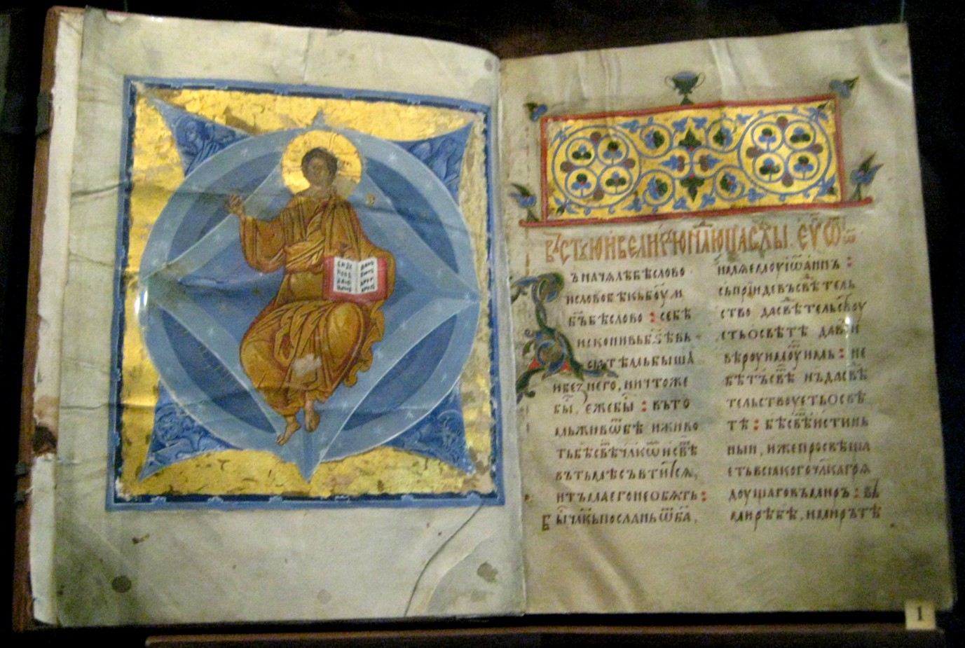 Gospels [from] Andronicov, circle of A.Rublev, 1st q. of 15 c.